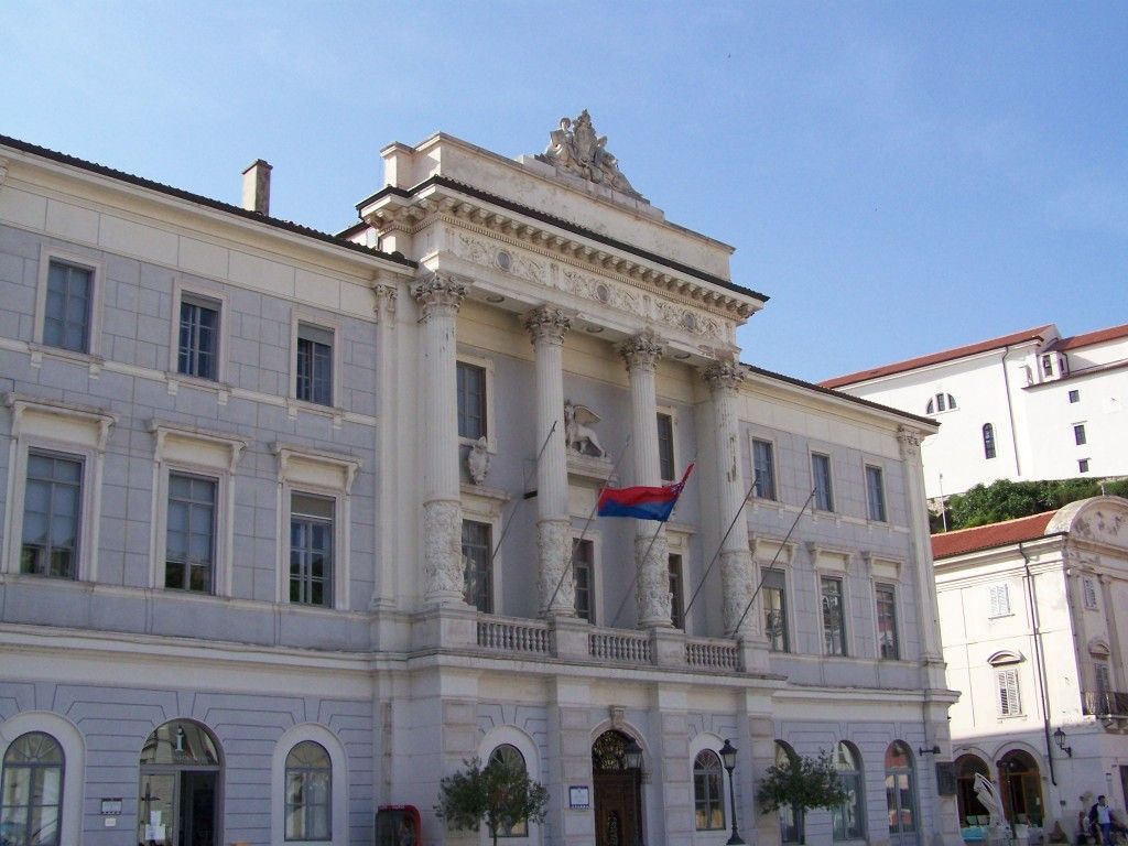 Rathaus in Piran